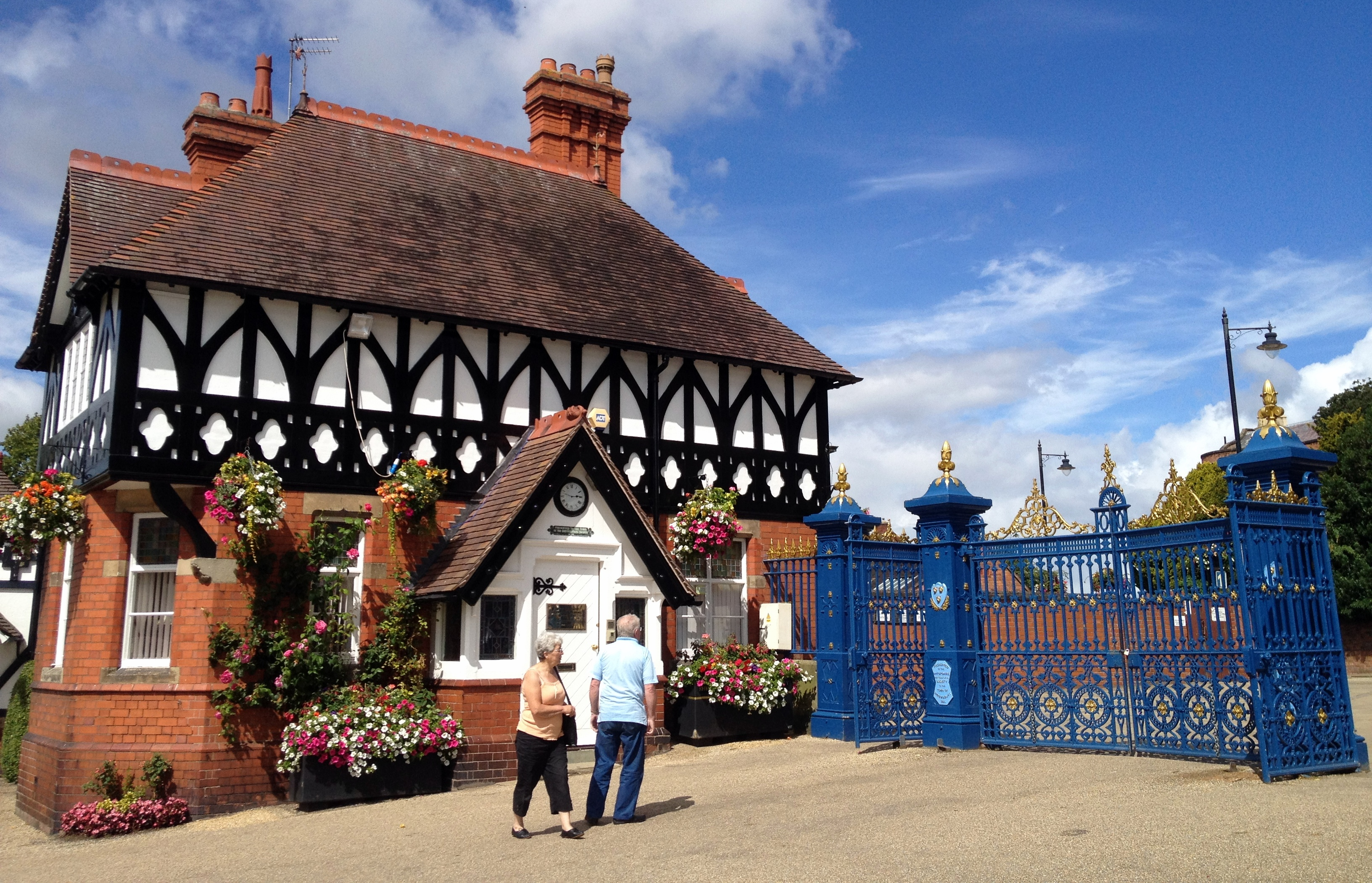 The Shrewsbury Horticultural Society's premises at the entrance to the Quarry Park, Shrewsbury, UK